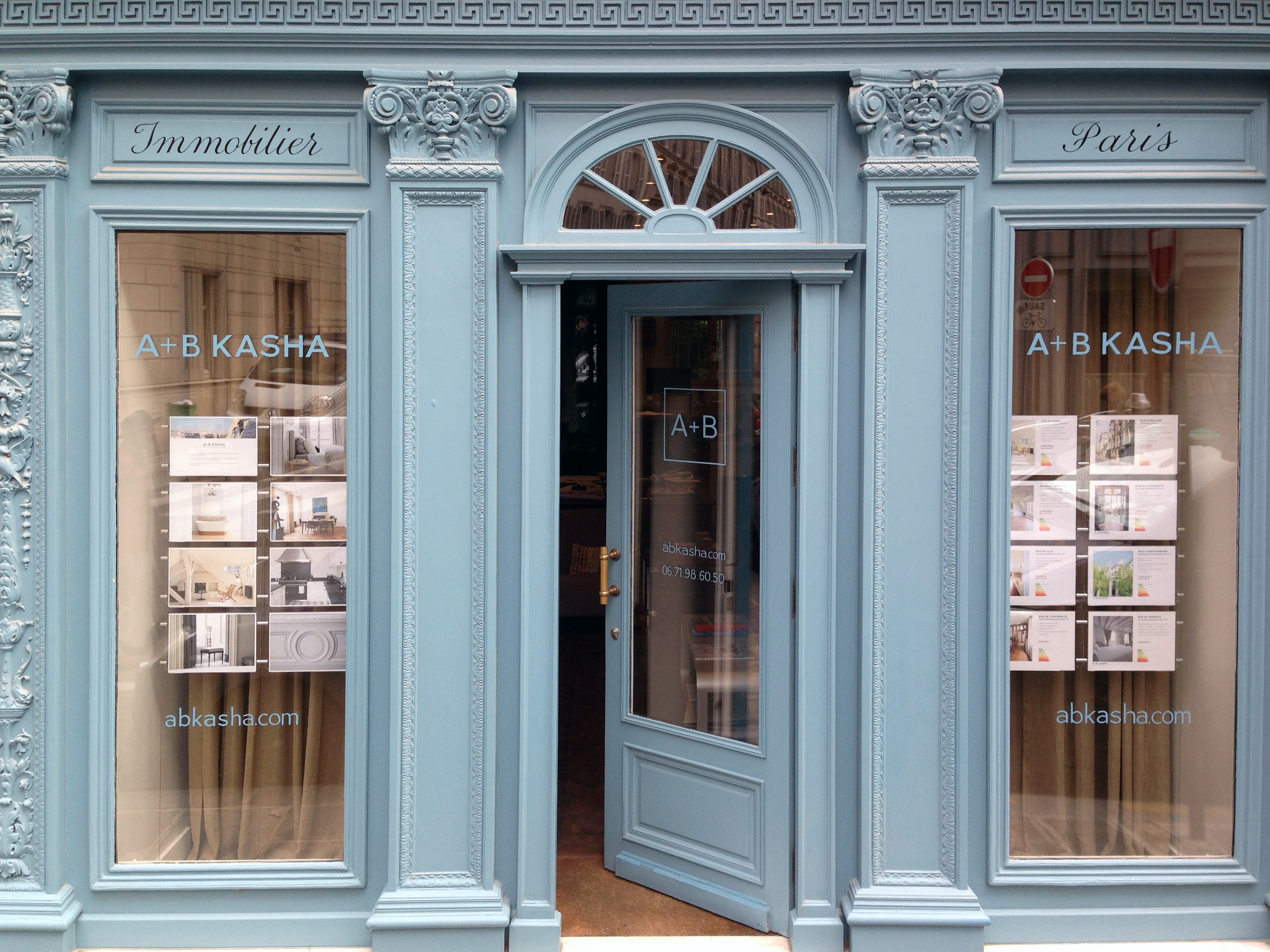 The storefront Facade of A+B Kasha